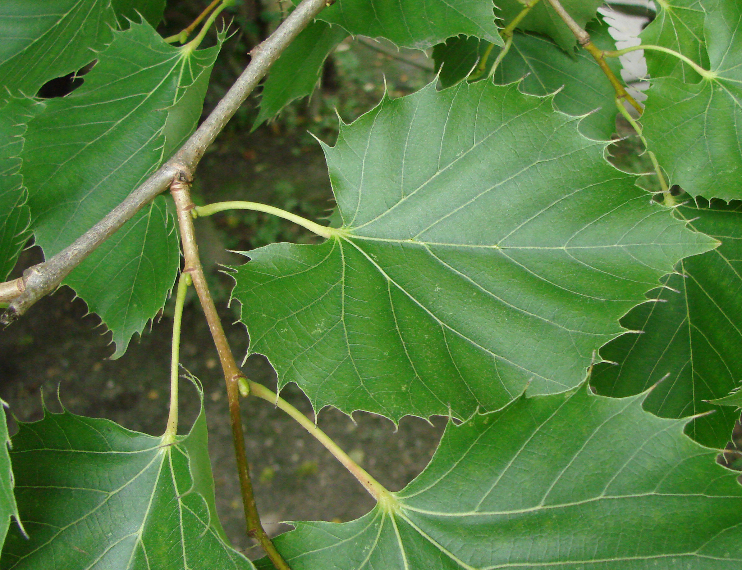 Leaves of Henryana lime (Tilia henryana). Amiens Zoo.